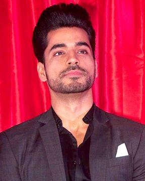 Gautam Gulati at the launch of film 'Udanchhoo'.